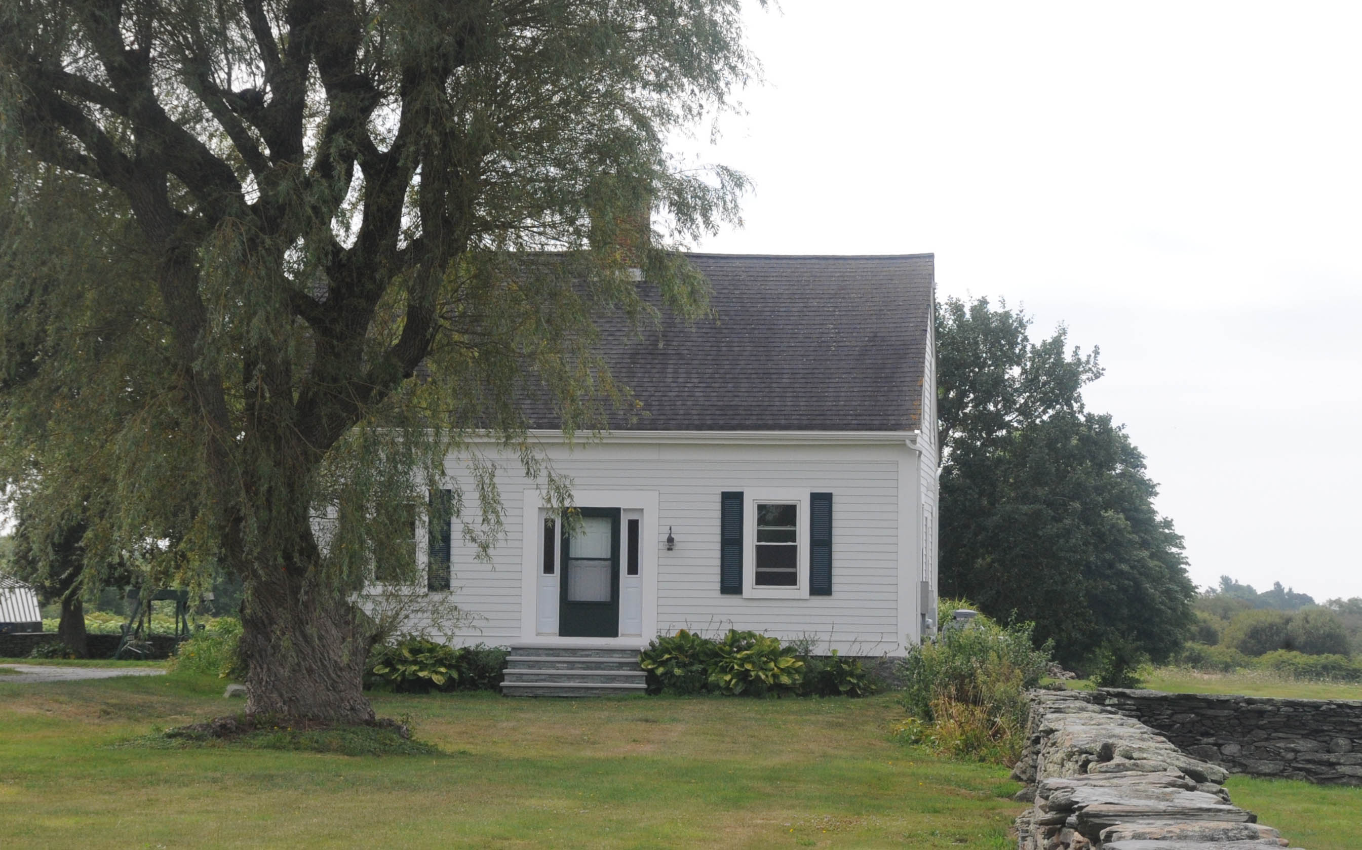 BUILT LATE 18TH CENTURY AND OCCUPIED BY THE BAILEY FAMILY INTO THE 19TH CENTURY